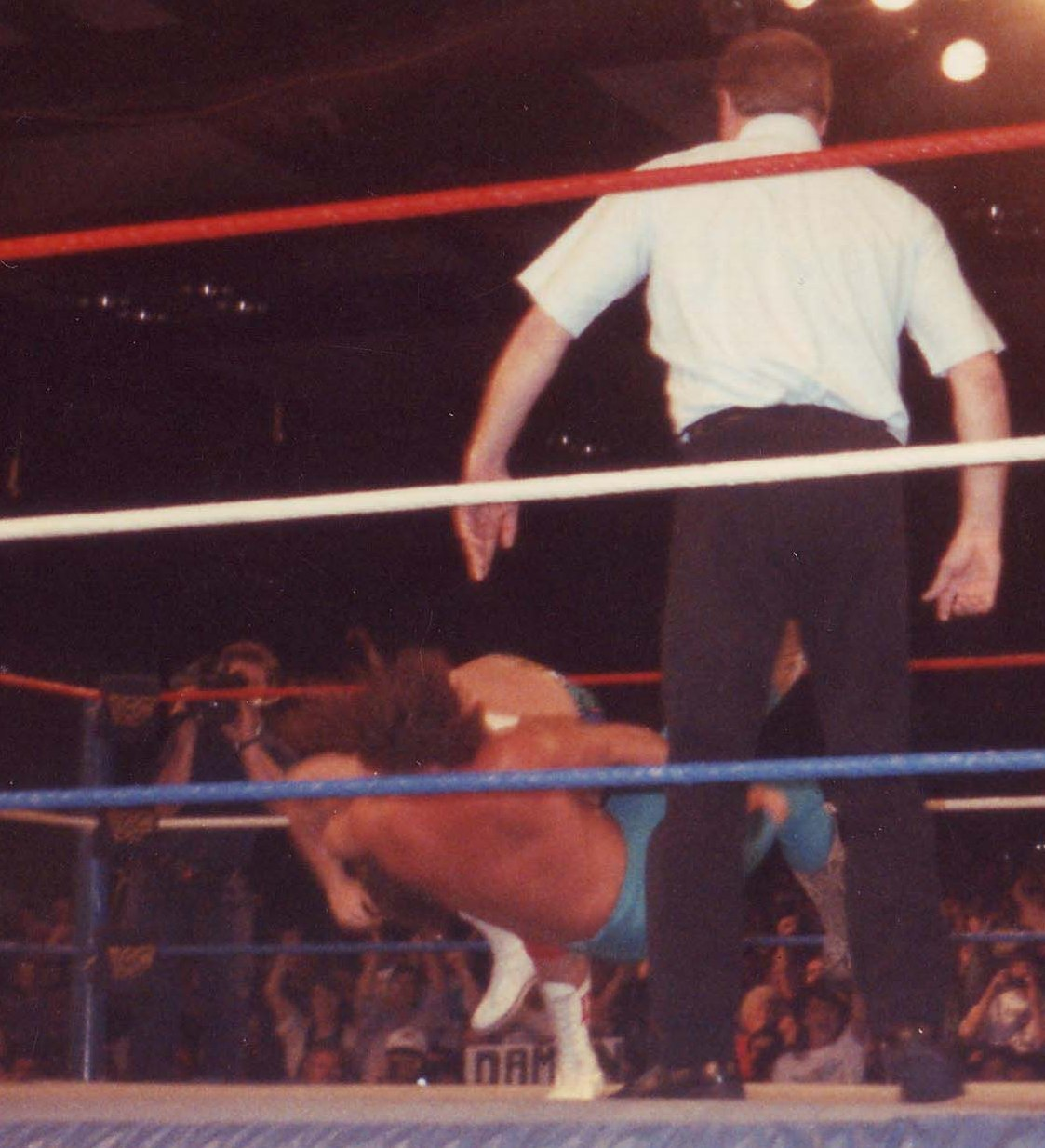 Jake Roberts invented the DDT, the move he is seen doing here.